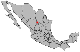 Location of Torreón, Coahuila, Mexico